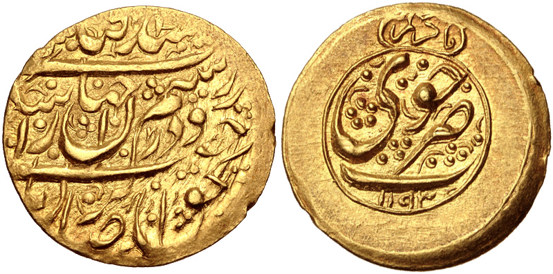 ISLAMIC, Persia (Post-Mongol). Zands. Muhammad Karim Khan. AH 1164-1193 / AD 1751-1779. AV Quarter Mohur (18mm, 2.74 g, 6h). Type C. Khuy mint. Dated AH 1193 (AD 1779). Album 2791; KM 525.3. EF, a couple of edge bumps.